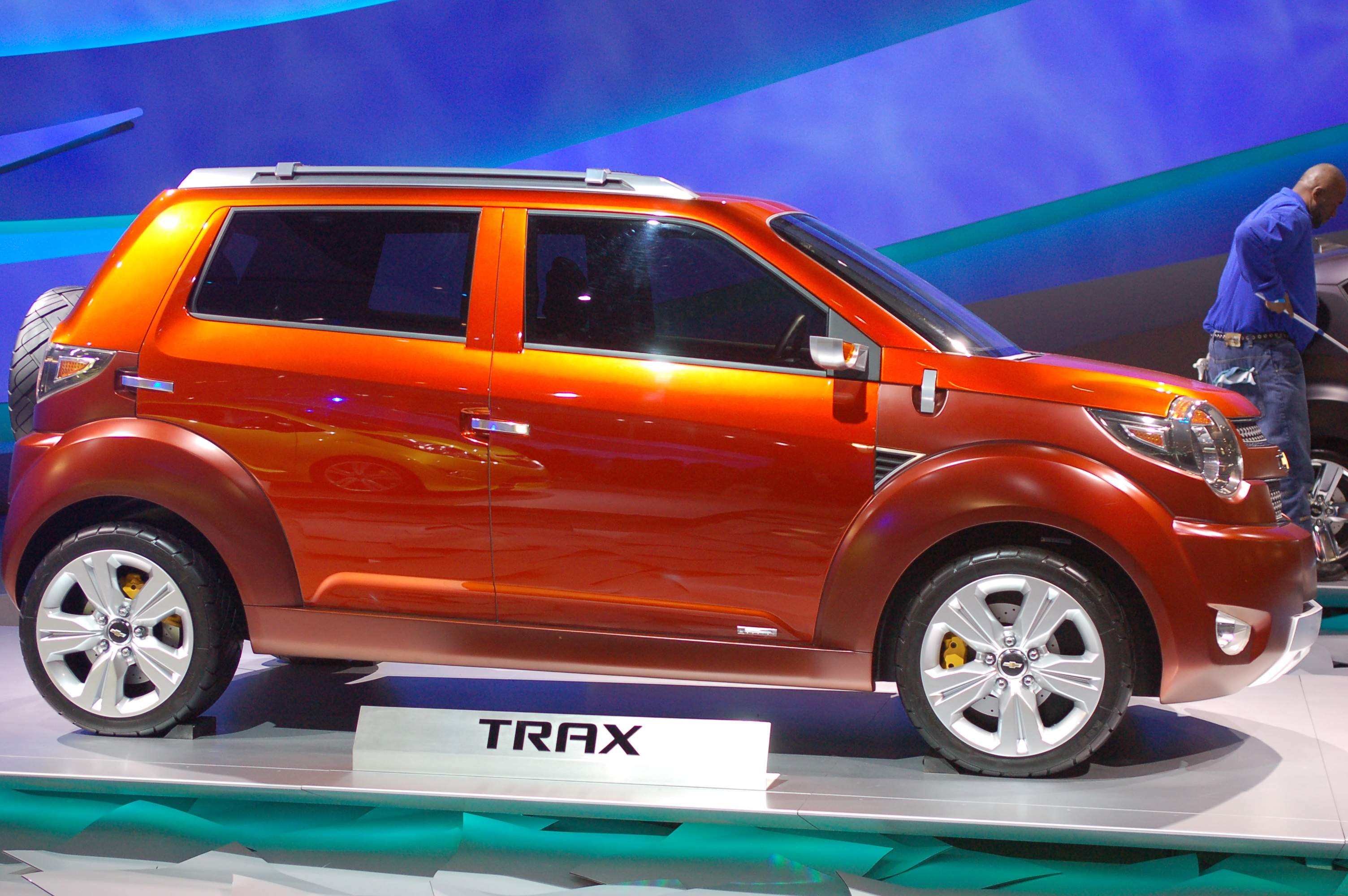 Chevrolet Trax.